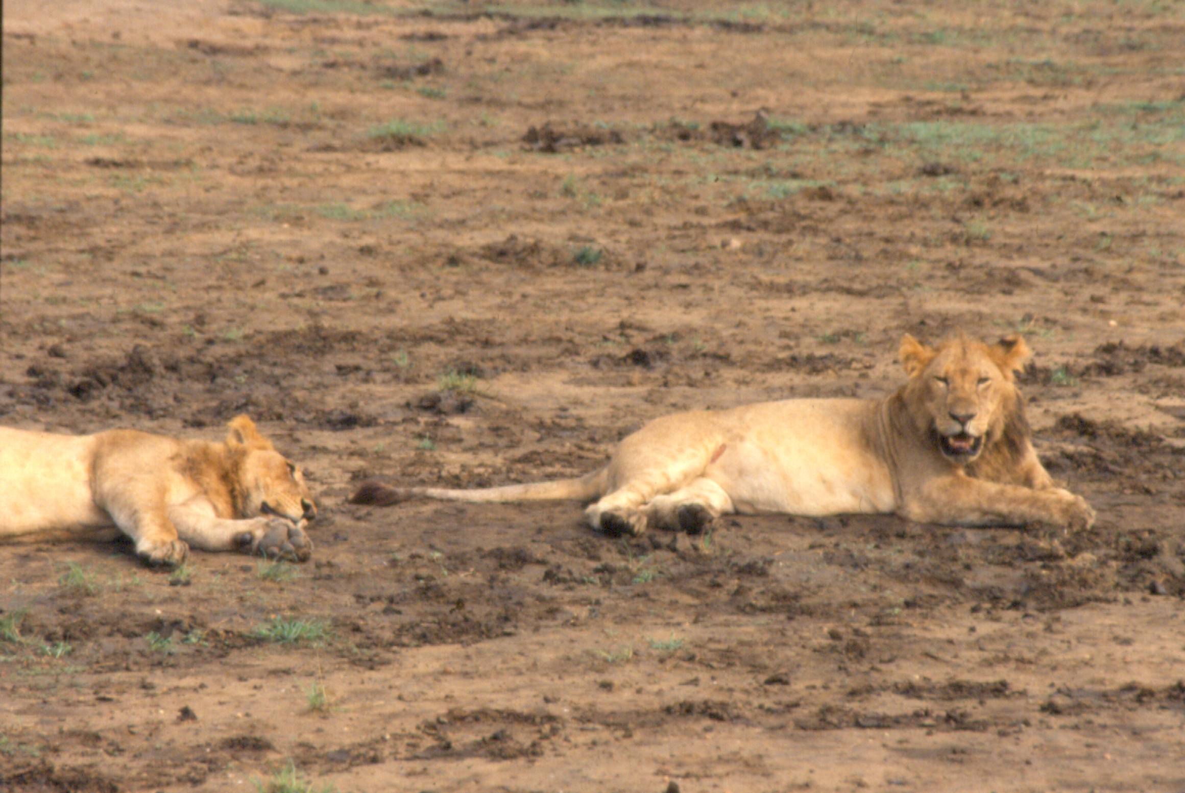 Lionness resting in the Virunga National Park, near the Rwindi Station. The Virunga National Park (formerly Albert National Park) lies from the Virunga Mountains, to the Rwenzori Mountains, in the eastern Democratic Republic of Congo, bordering Volcanoes National Park in Rwanda and Rwenzori Mountains National Park in Uganda. The lion (Panthera leo) is one of four big cats in the genus Panthera, and a member of the family Felidae. They typically inhabit savanna and grassland, although they may take to bush and forest. Lions are unusually social compared to other cats. The lion is an apex and keystone predator, although they will scavenge if the opportunity arises. Digitized slide.